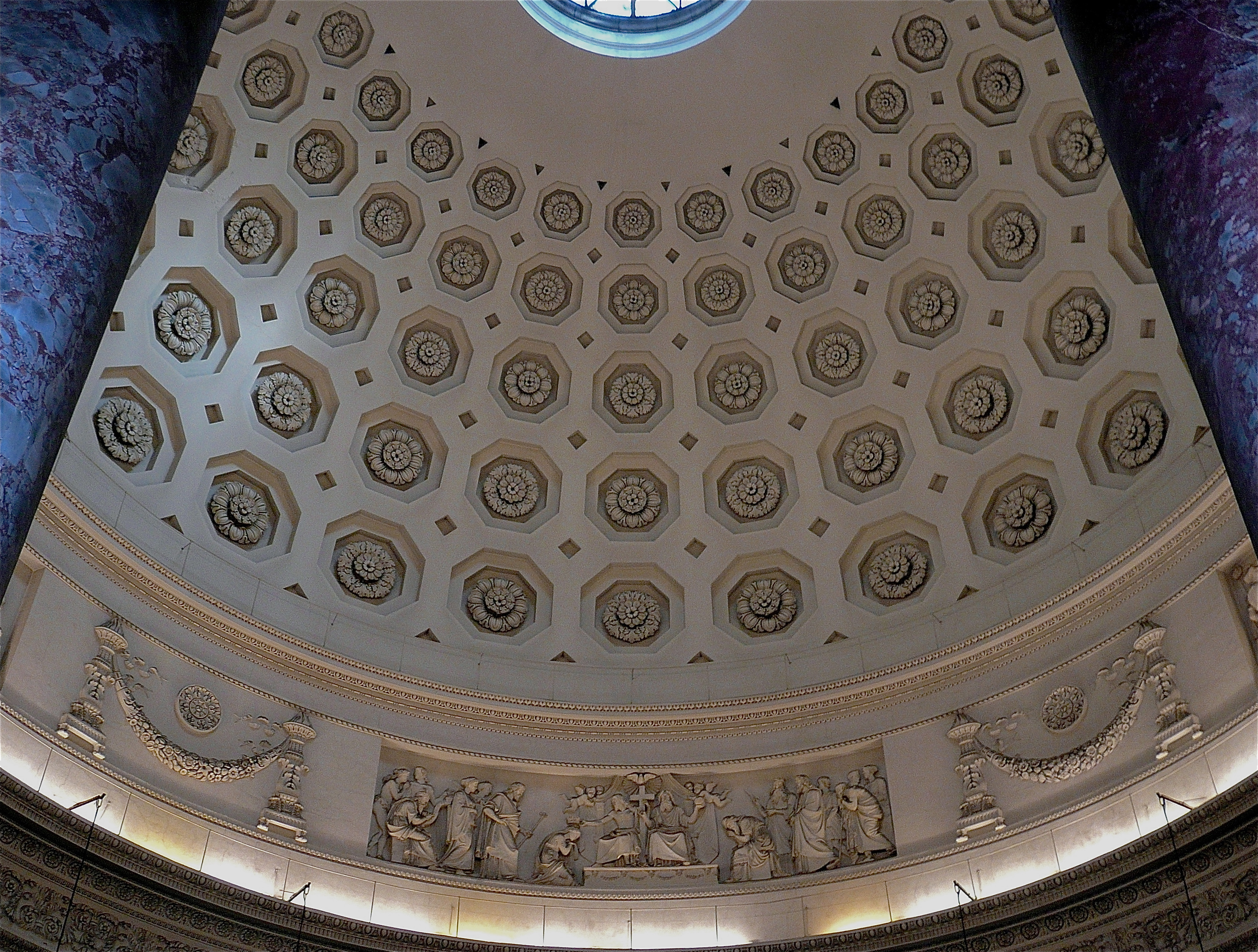 Interior of Gran Madre di Dio, Turin